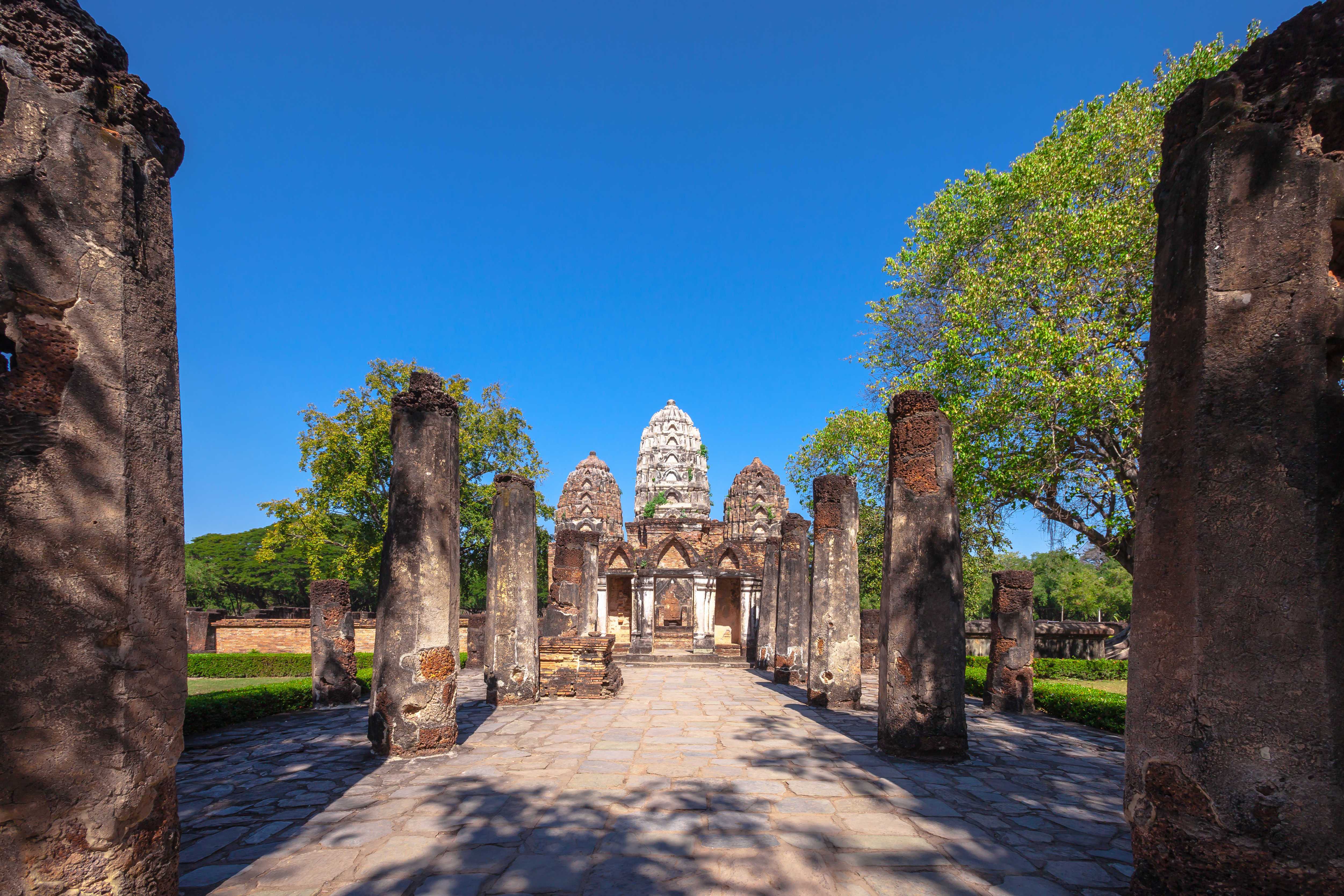 Wat Sri Sawai, Mueang Sukhothai District, Sukhothai Province, northern Thailand.